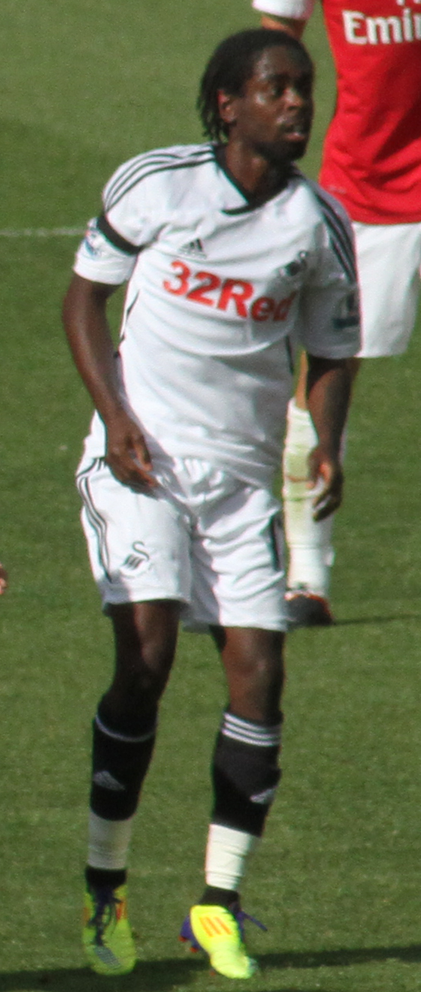 Nathan Dyer of Swansea City, FC This file has been extracted from another file: Danny Graham, Laurent Koscielny, Nathan Dyer & Kieran Gibbs.jpg